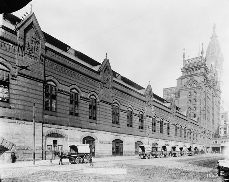 View of the south side, the "Chinese Wall" beneath the Broad Street Station train shed. The terra cotta relief sculptures are by Karl Bitter.